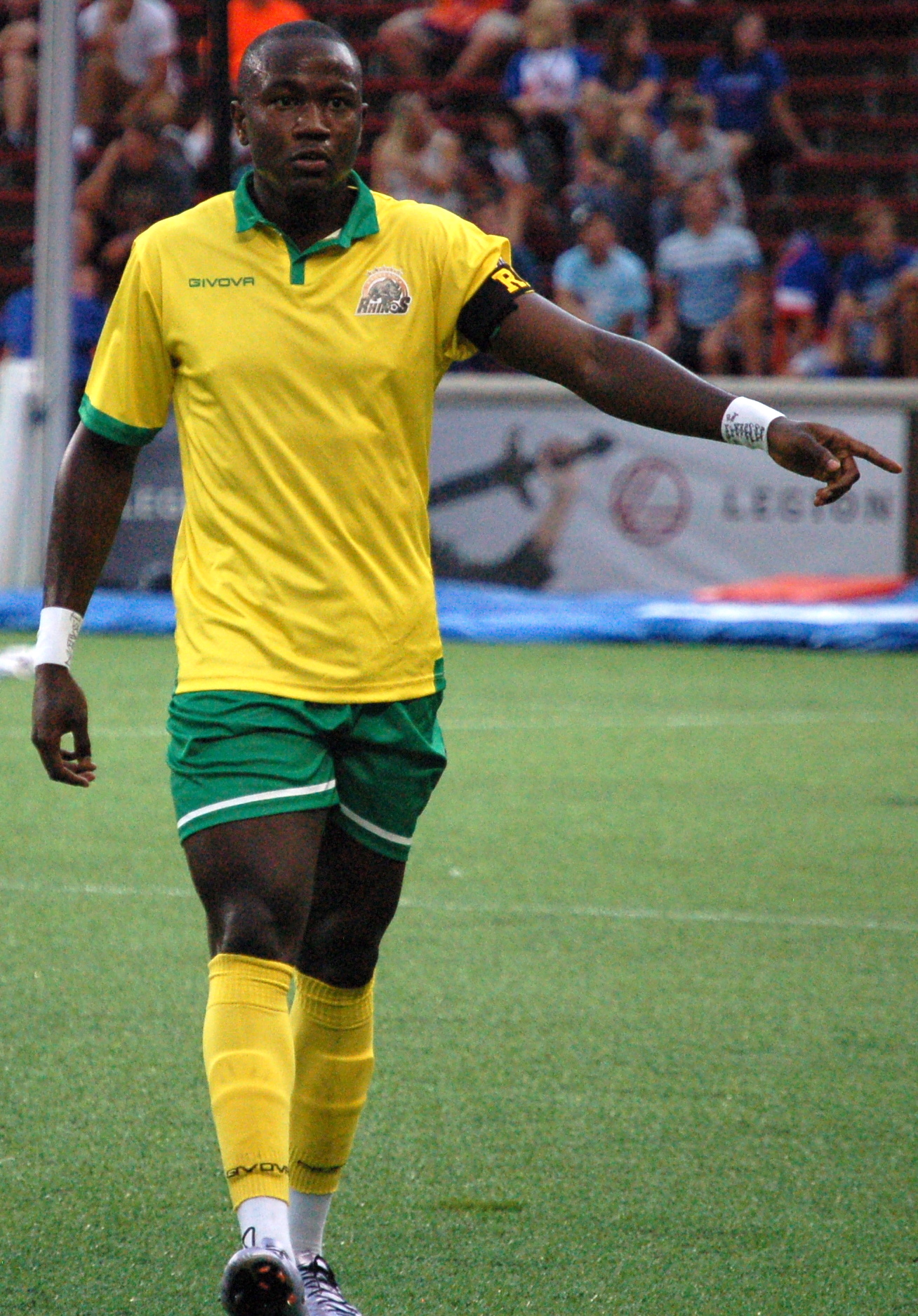 Bradley Kamdem (ROC) Taken during a match between FC Cincinnati and Rochester Rhinos at Nippert Stadium in Cincinnati, USA on August 24, 2016.